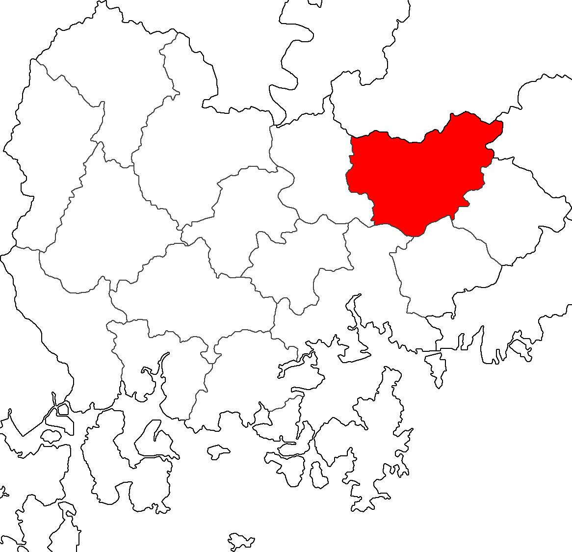 Miryang, Gyeongsangnam-do, Republic of korea